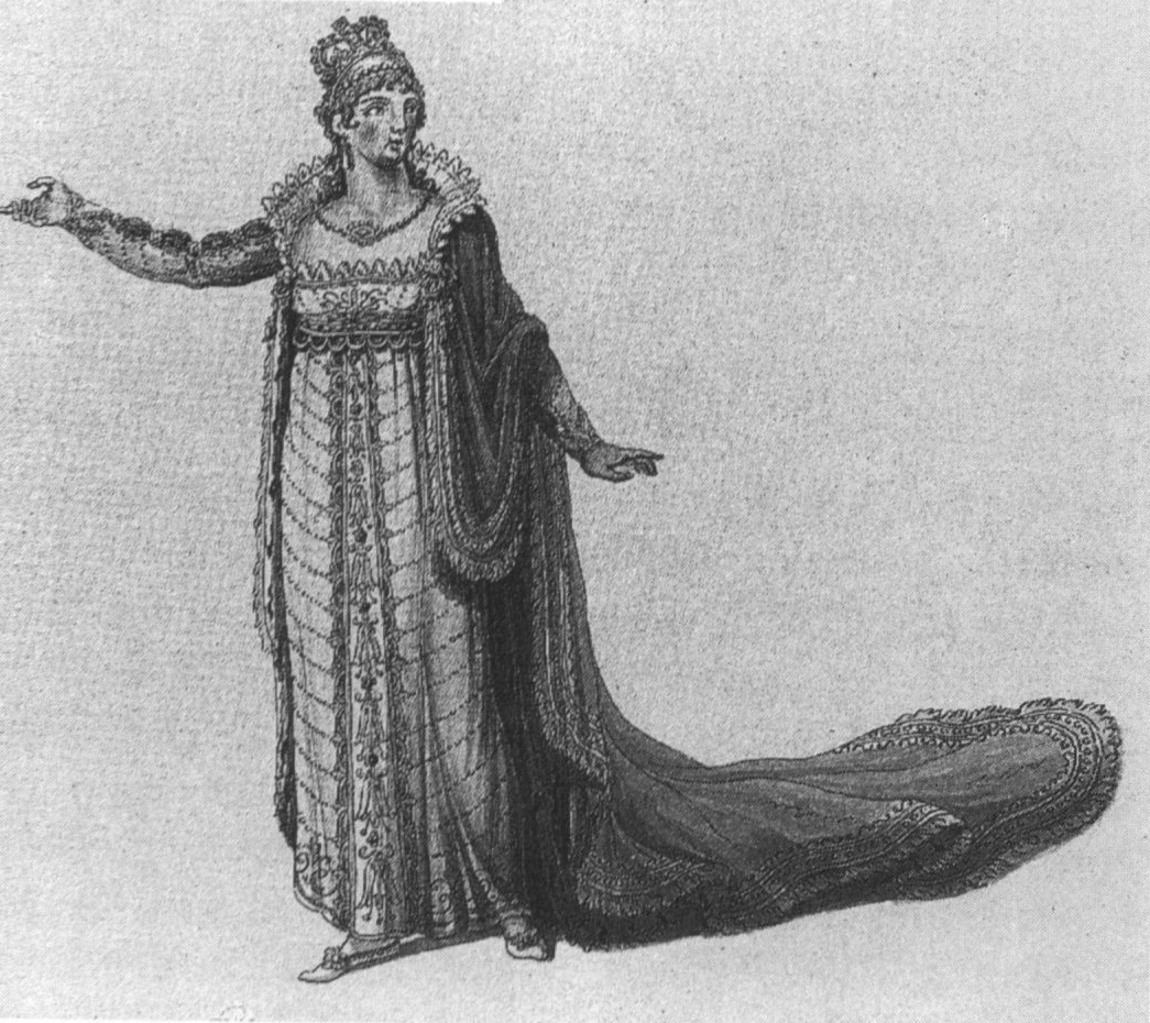 Rossini - Elisabetta regina d'Inghilterra - Isabella Colbran as Elisabetta - watercolor by Giacomo Pregliasco - Teatro San Carlo - Naples 1815